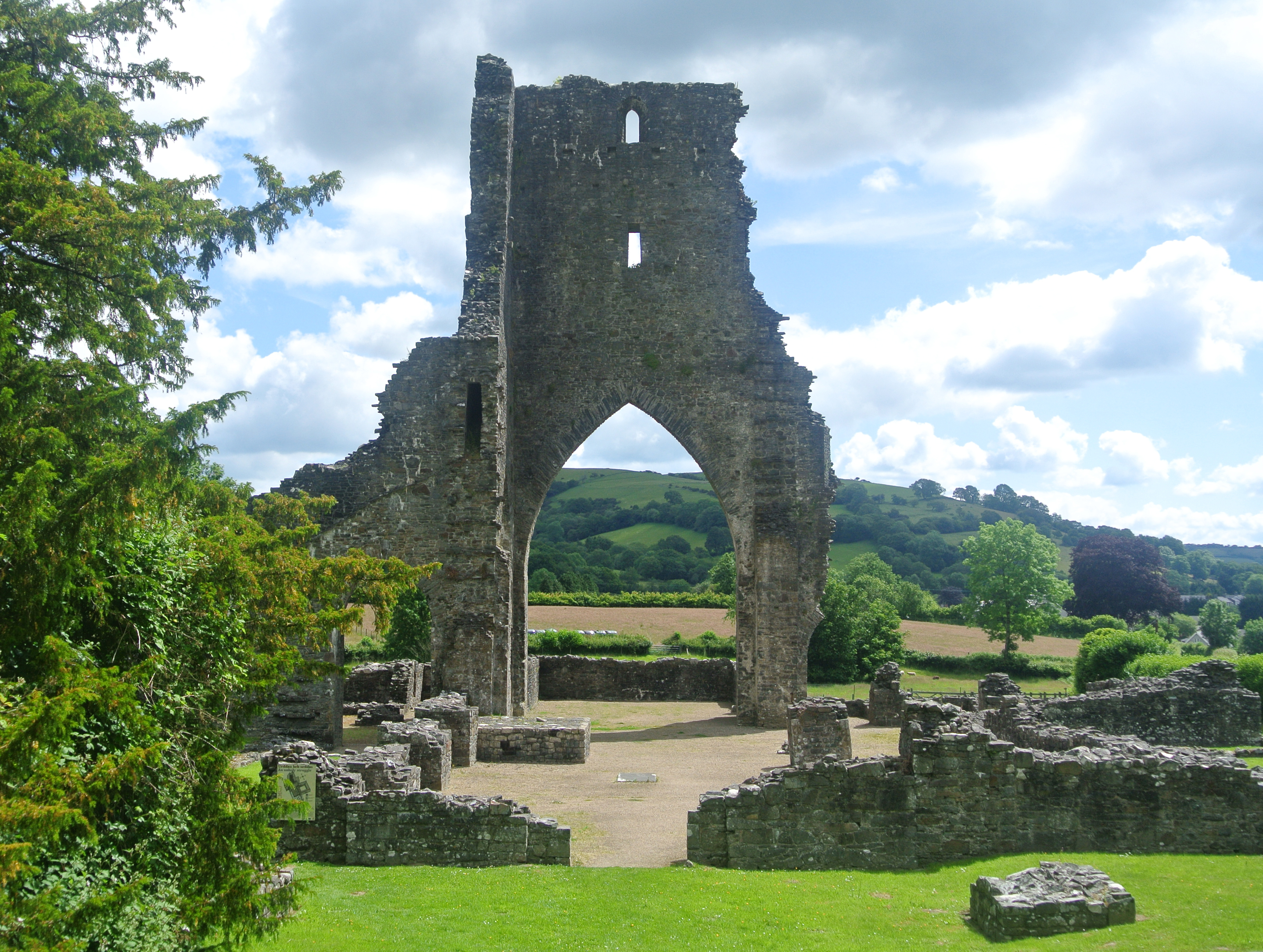 Talley Abbey (Ceredigion, Wales, UK)